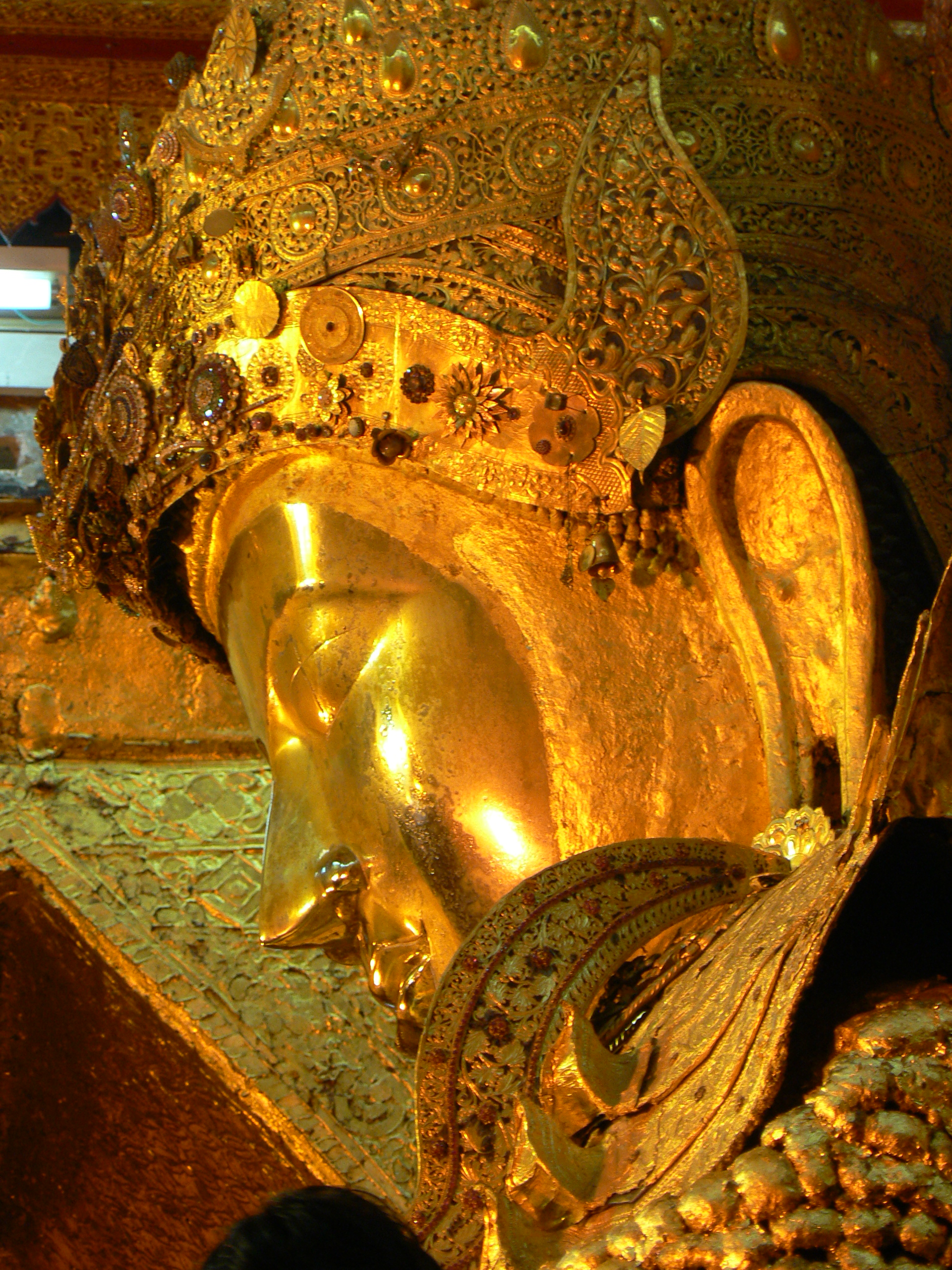 the famous Mahamuni Statue, Mahamuni Pagoda, Mandalay